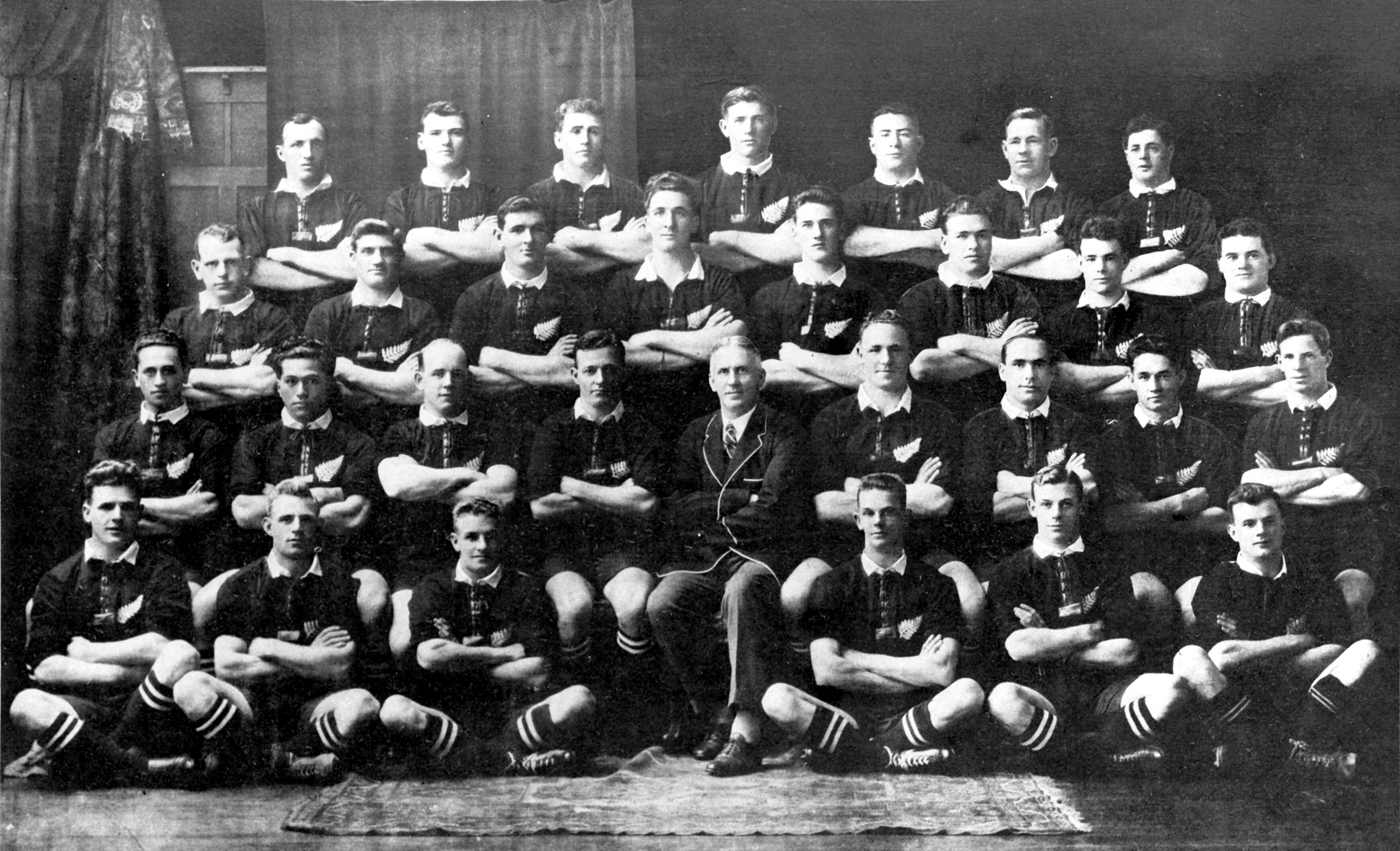 The New Zealand national rugby team, nicknamed The Invincibles All Blacks.